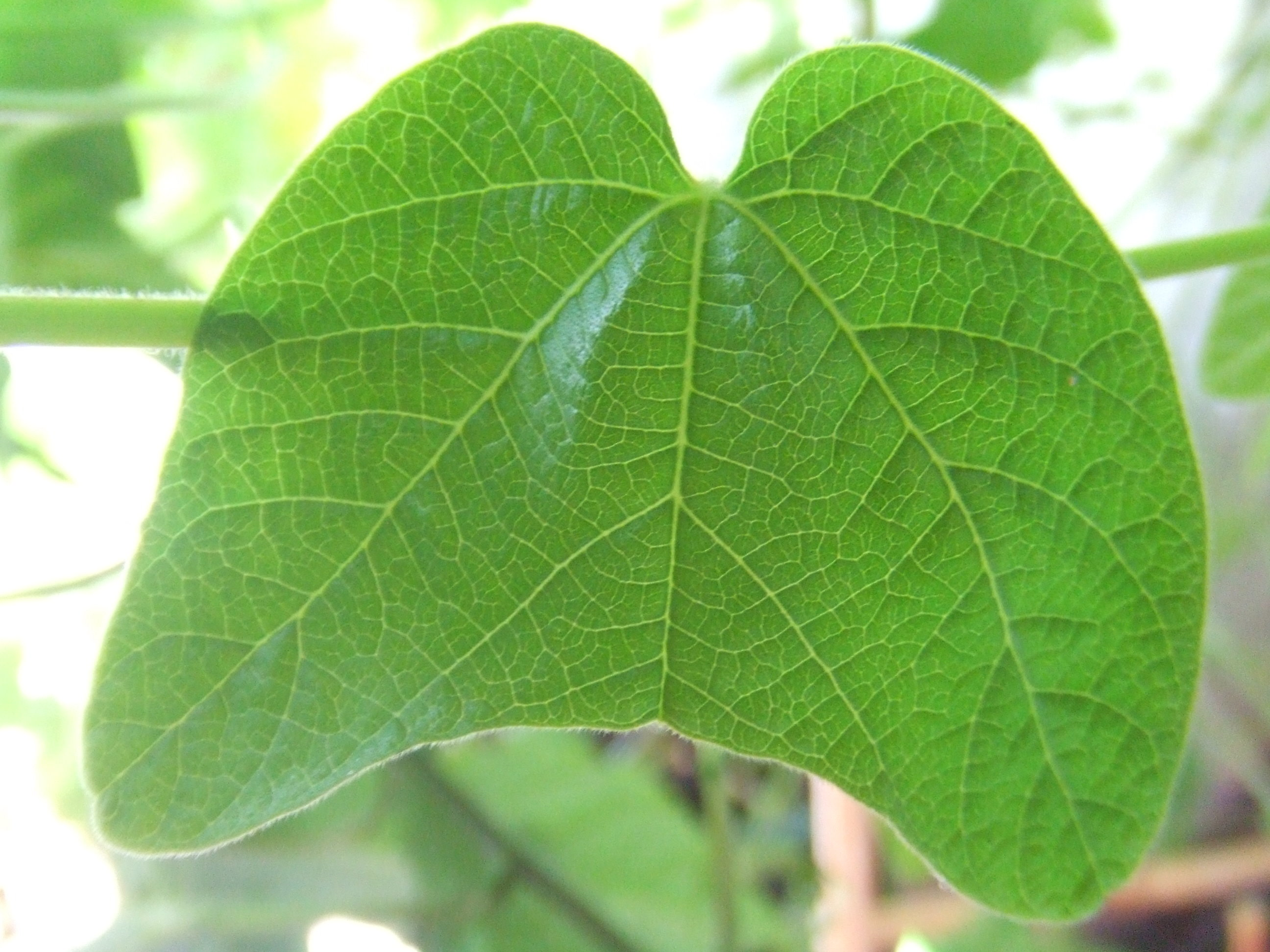 Passiflora sanguinolenta, own collection